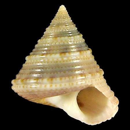 Apertural view of the shell of Calliostoma trotini Poppe, Tagaro & Dekker, 2006